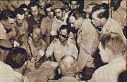 Ahmed Abdel-Aziz negotiating Moshe Dyan 1948